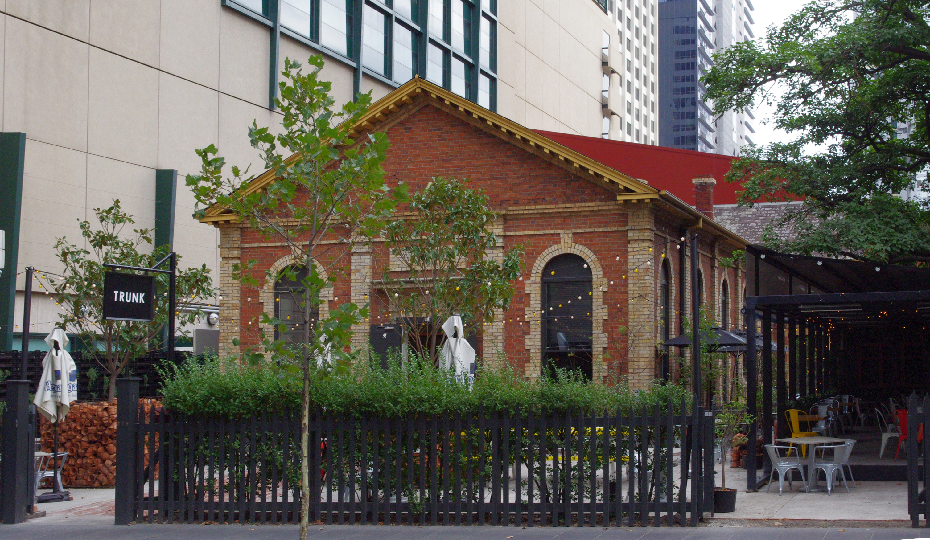 The former Hebrew Congregational School and Mikveh Yisrael Synagogue, Melbourne, Australia